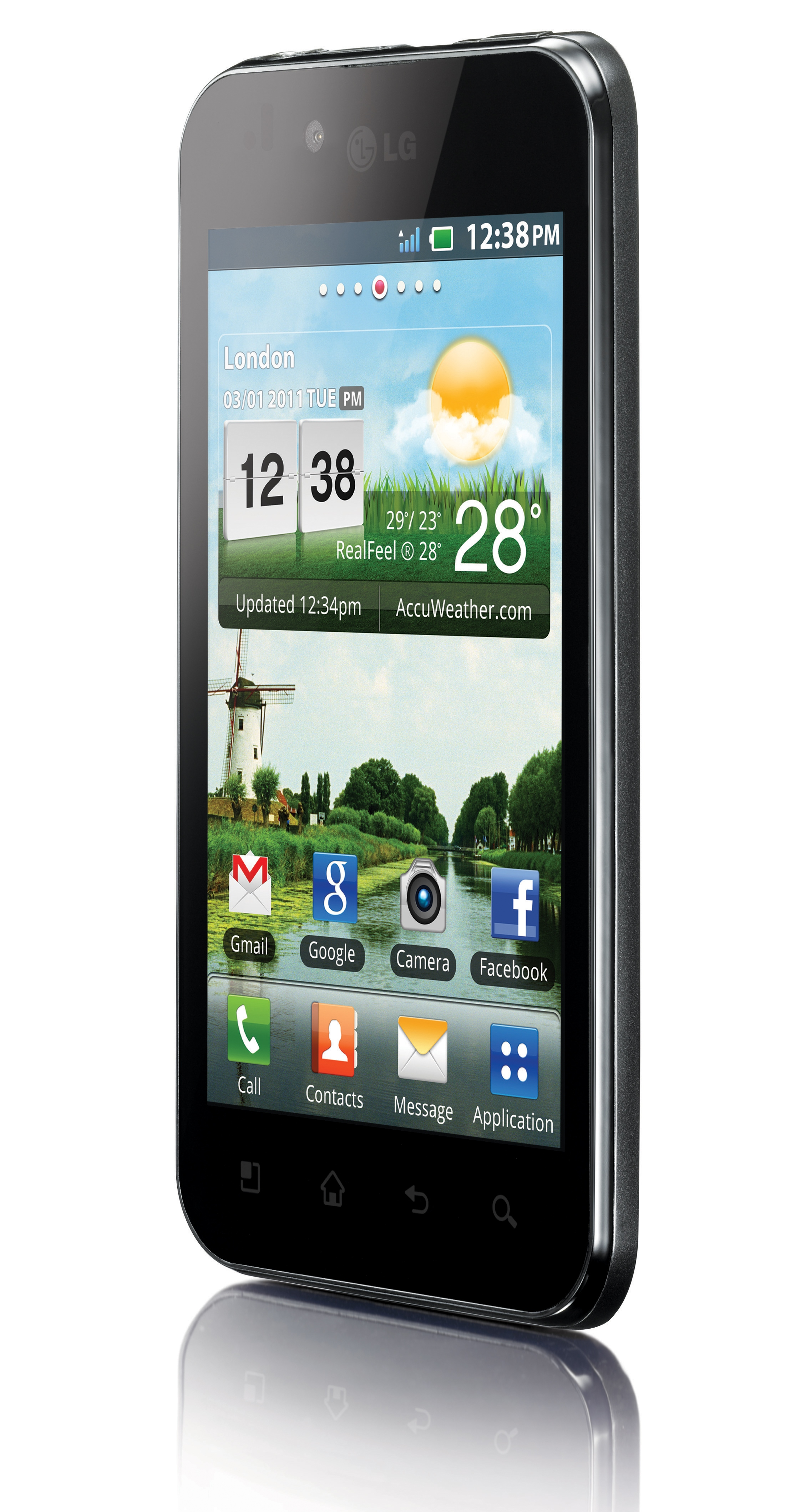 LG Optimus Black